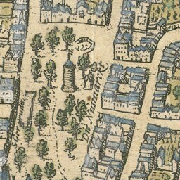 Map of the Neumarkt place in Cologne dated 1650